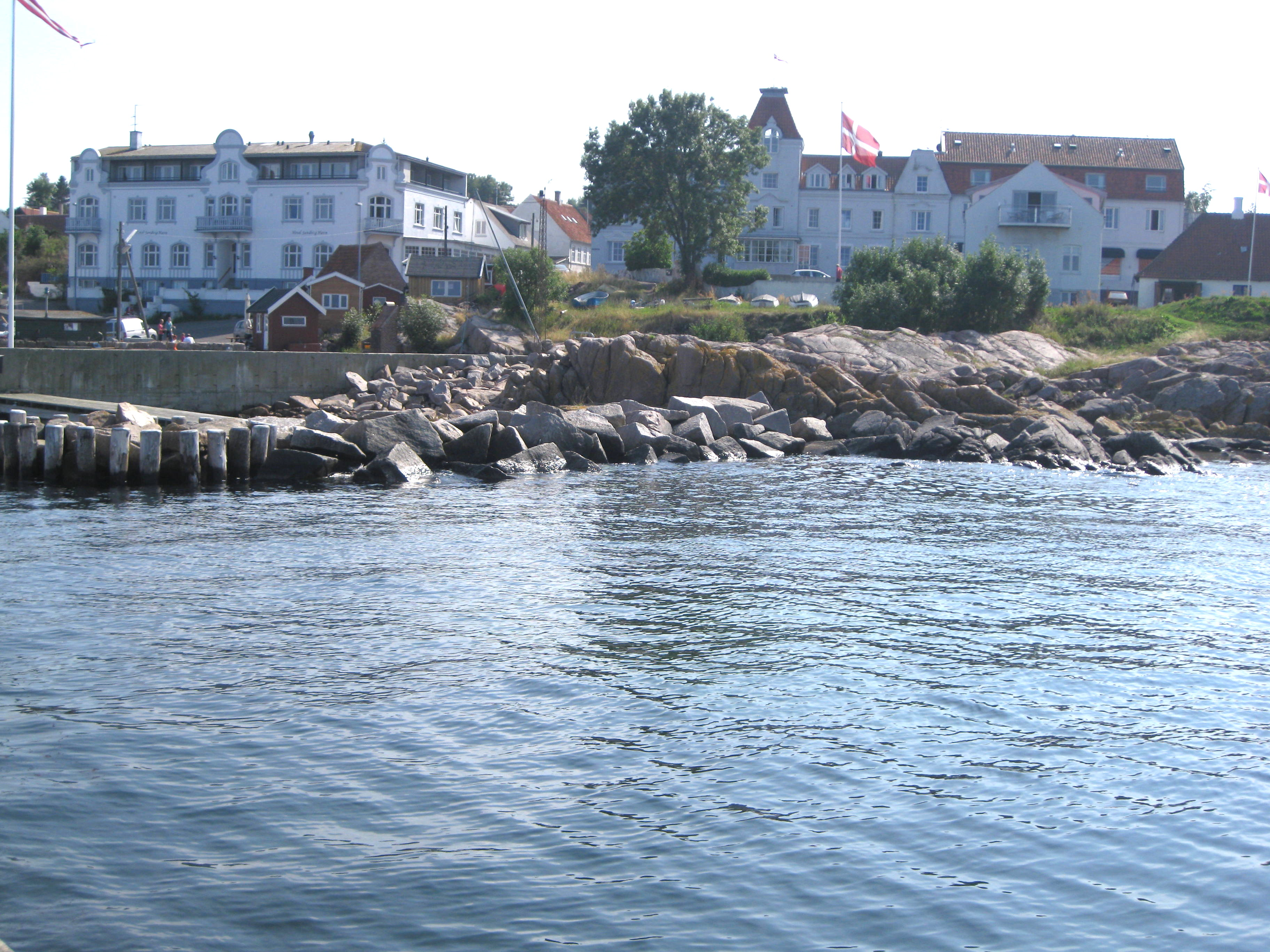 Seaside hotels in "Sandvig". The small town "Allinge-Sandvig" is located om the island Bornholm in east Denmark.